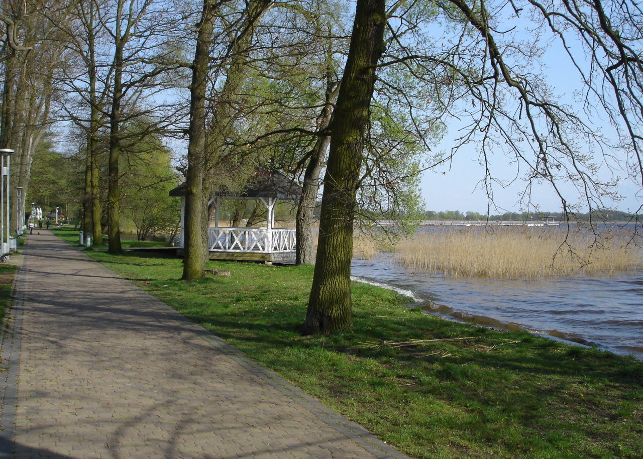 Miedwie Lake, (Stargard County), Poland